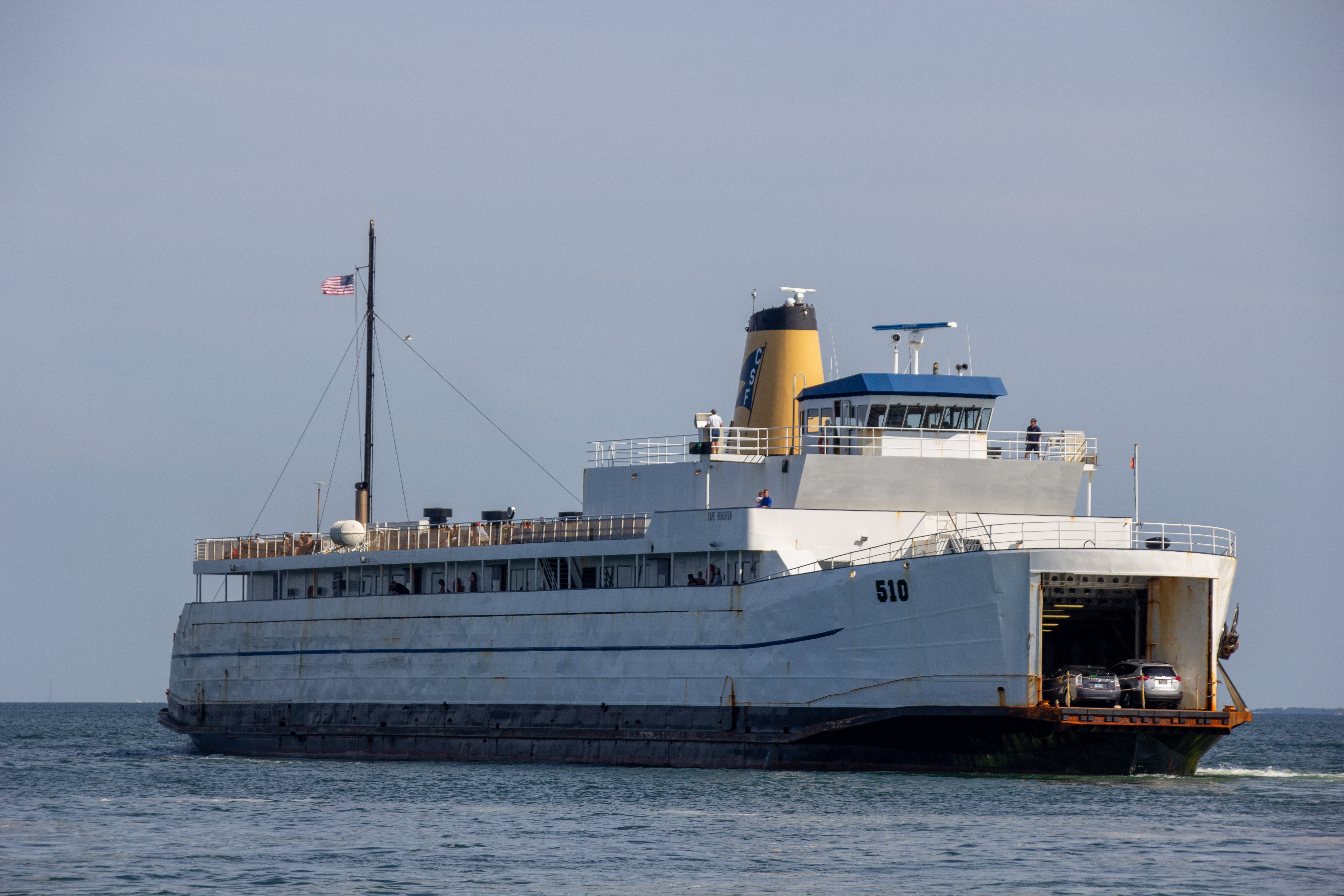 Orient Point, Suffolk County, New York, USA